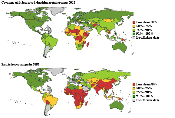 Access to improved drinking water and progress towards achieving the internationally agreed goals on water and sanitation.